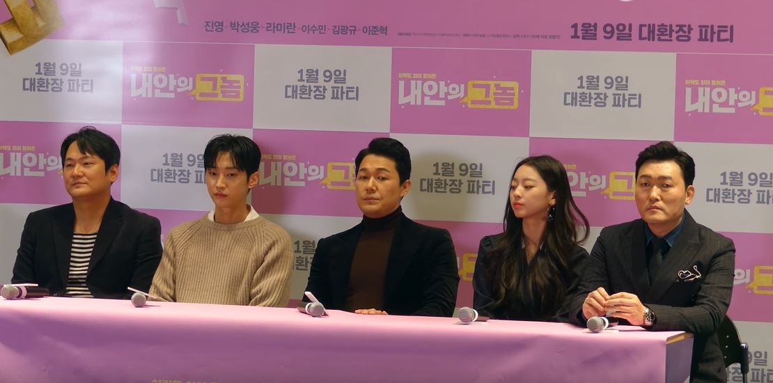 The Dude In Me director and cast at a press conference